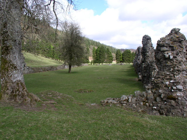 Abaty Cwm Hir. The remains of the abbey at Abbeycwmhir, a 12th century Cistercian abbey in North Radnorshire. There is a longstanding tradition that the body of Llywelyn ap Gruffydd (the Last) was buried at the abbey after his death near Builth in 1282; a modern slab has been placed at the east end to commemorate this.